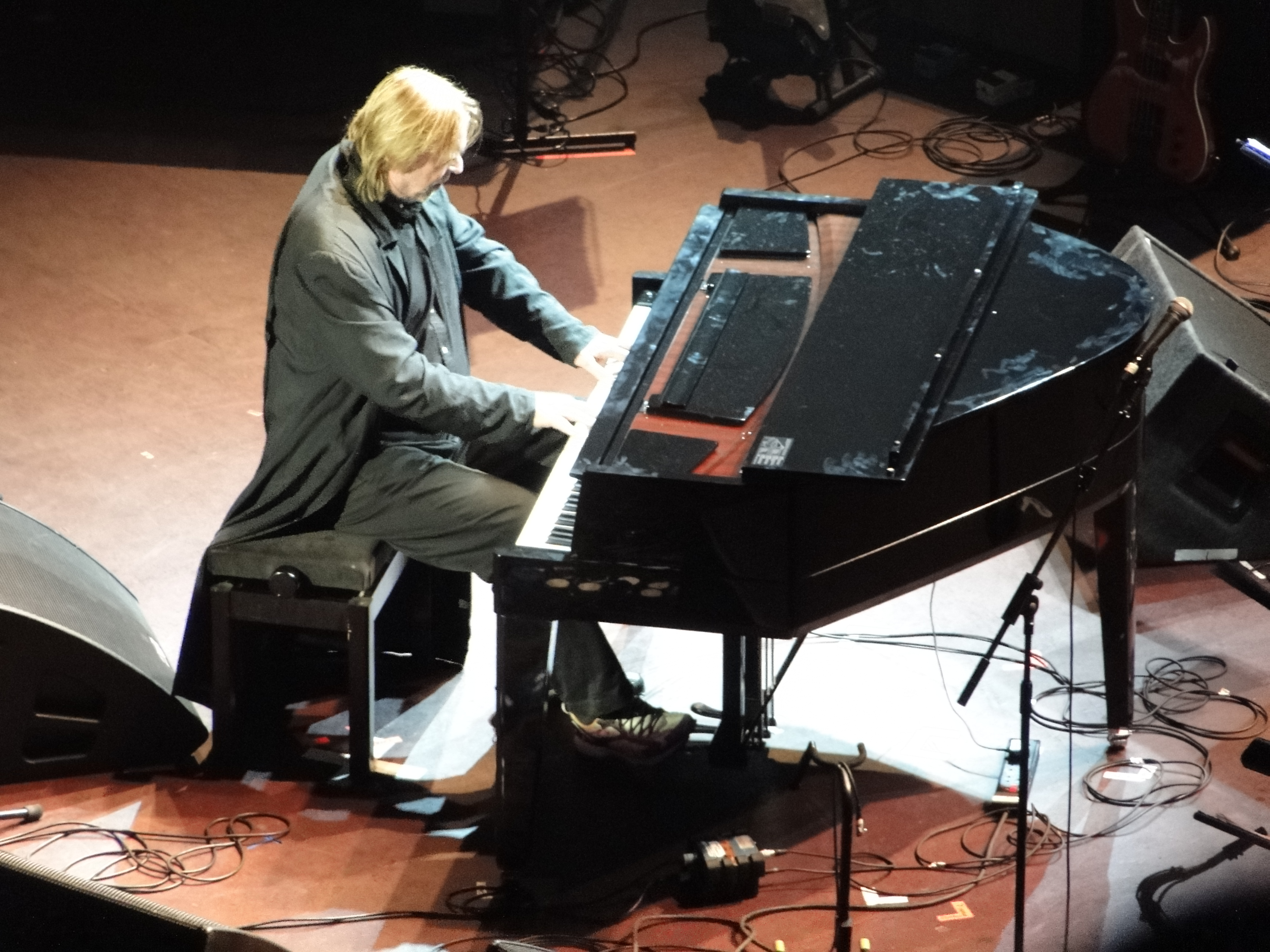 Rick Wakeman appearing at the Royal Albert Hall, London